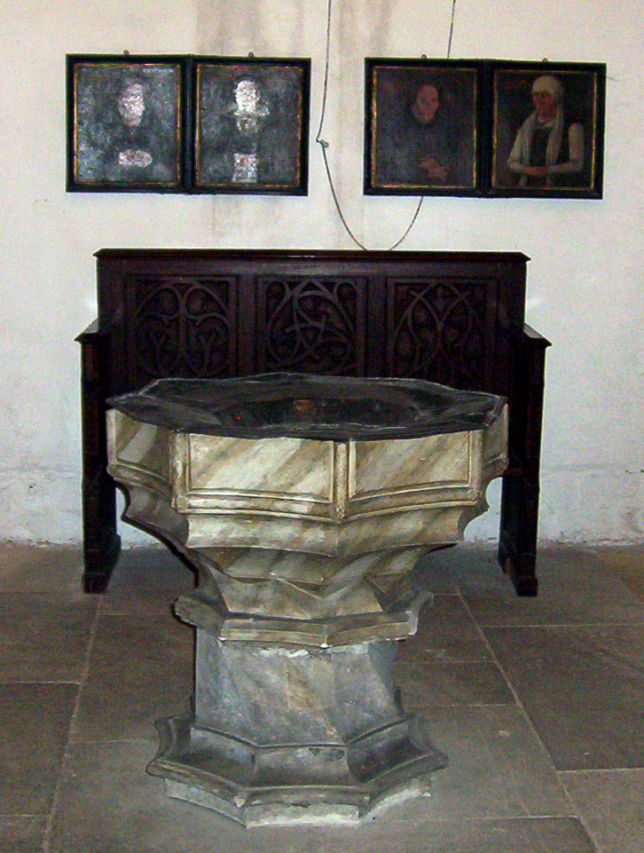 Martin Luther's Baptismal font